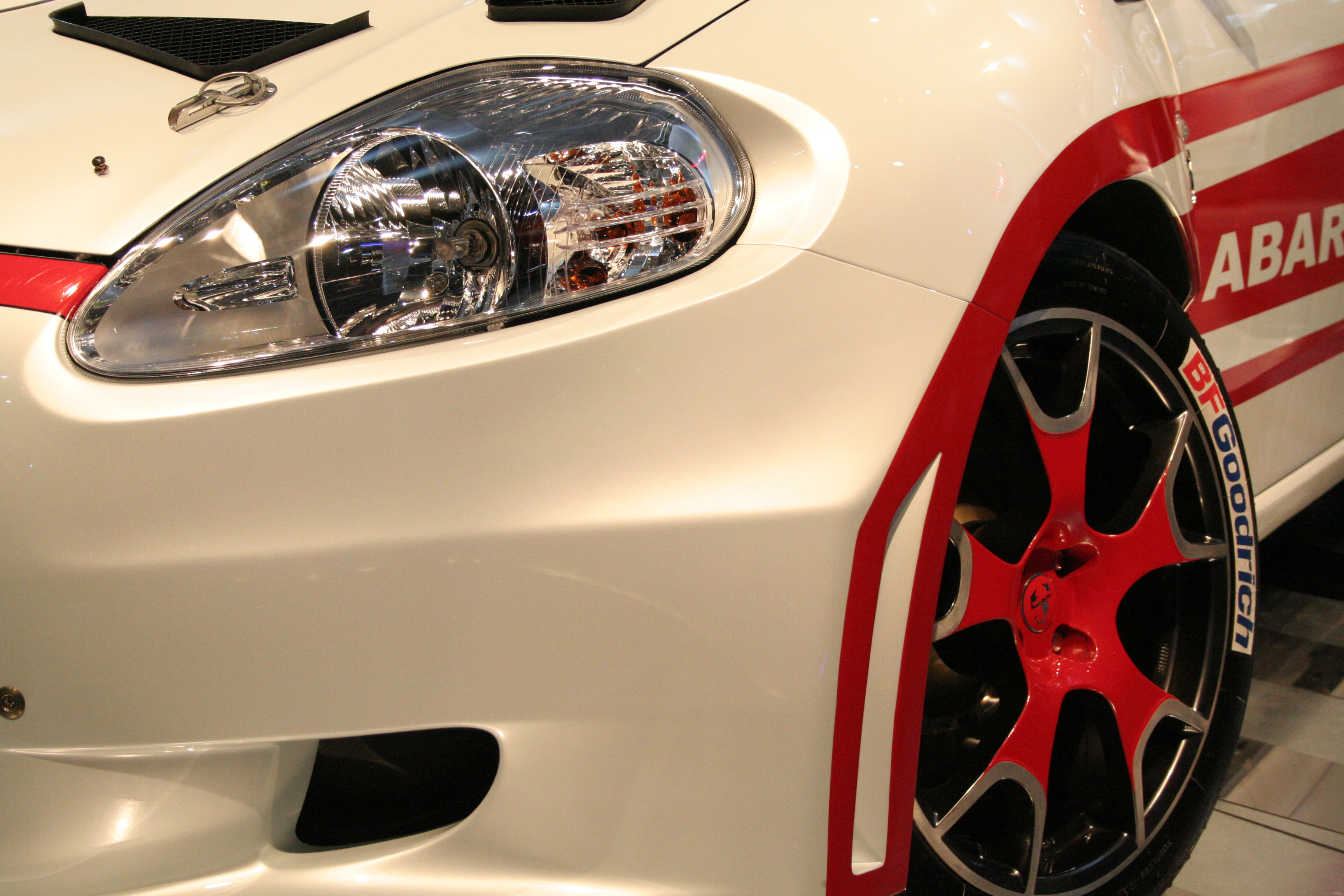 Image from IAA 2007 in Frankfurt am Main